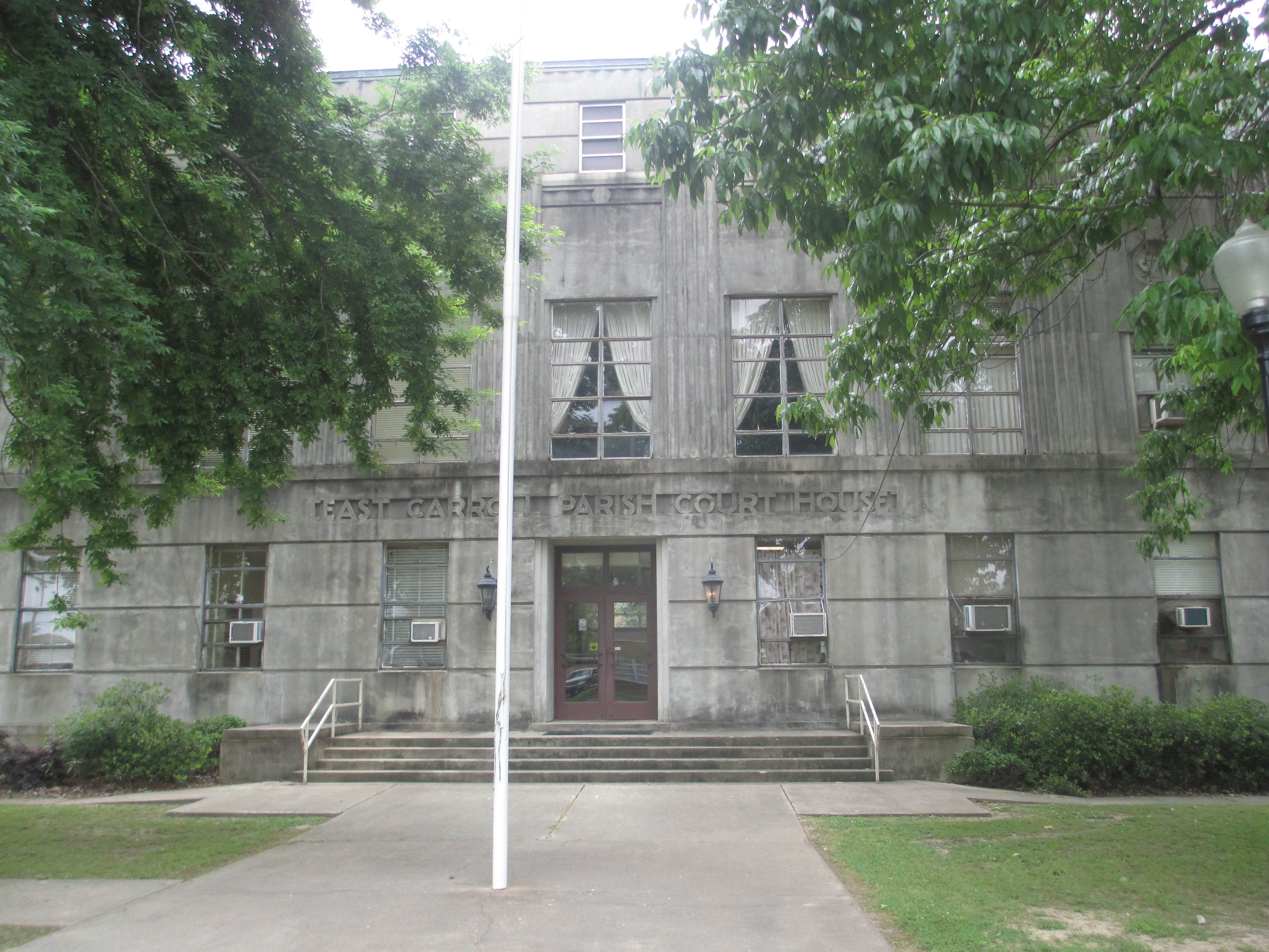 I took photo of East Carroll Parish Courthouse in Lake Providence, LA, with Canon camera.